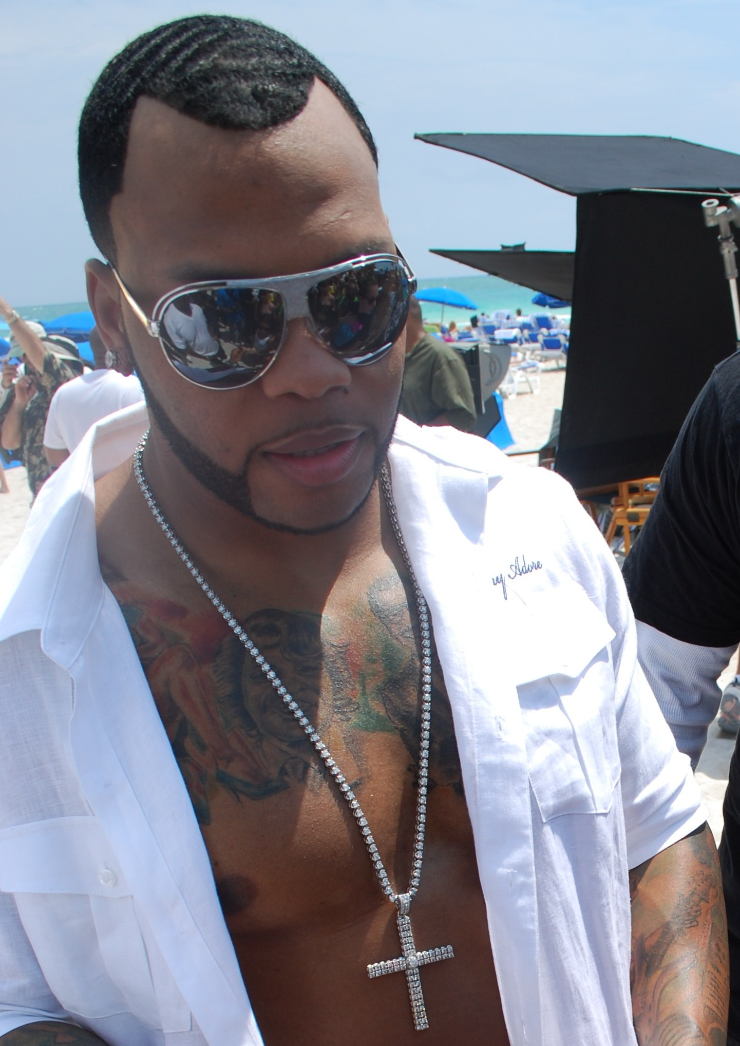 Rapper Flo Rida signing autographs at the shooting of his music video "Sugar" on a beach in Miami, Florida.